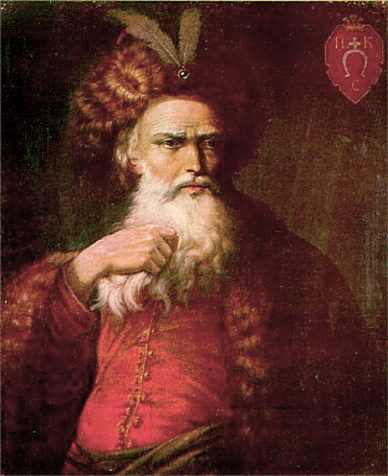 Petro Konashevych-Sahaidachny